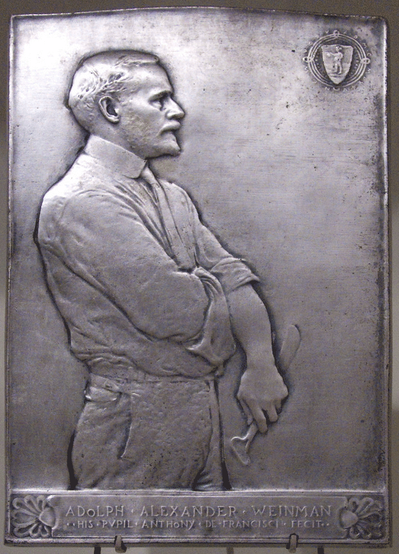 Adolph Alexander Weinman, 1915, cast and silver plated white metal relief by Anthony de Francisci. The legend at the bottom, written partly in Latin, reads: "His Pupil Anthony de Francisci Fecit [Made This]." The work is in the Smithsonian American Art Museum, 4th floor, Luce Foundation Center.